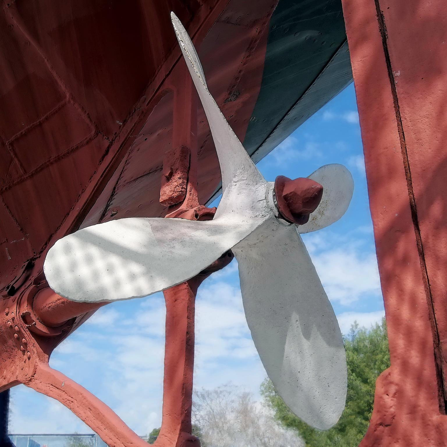 The steel propeller of the steamer tug Vridni (built 1894 by Homaldtswerke's subsidiary Howaldts & Co. in Brgudi, Rijeka, Croatia), painted white. ACKNOWLEDGMENT Photographed with kind permission of the Brodosplit Shipyard, Split, Croatia.